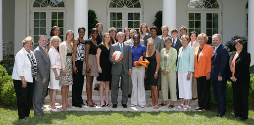 The University of Tennessee Lady Volunteers women's basketball team are honored at the White House by President George W. Bush for the side's winning the 2008 National Collegiate Athletic Association Division I national championship.